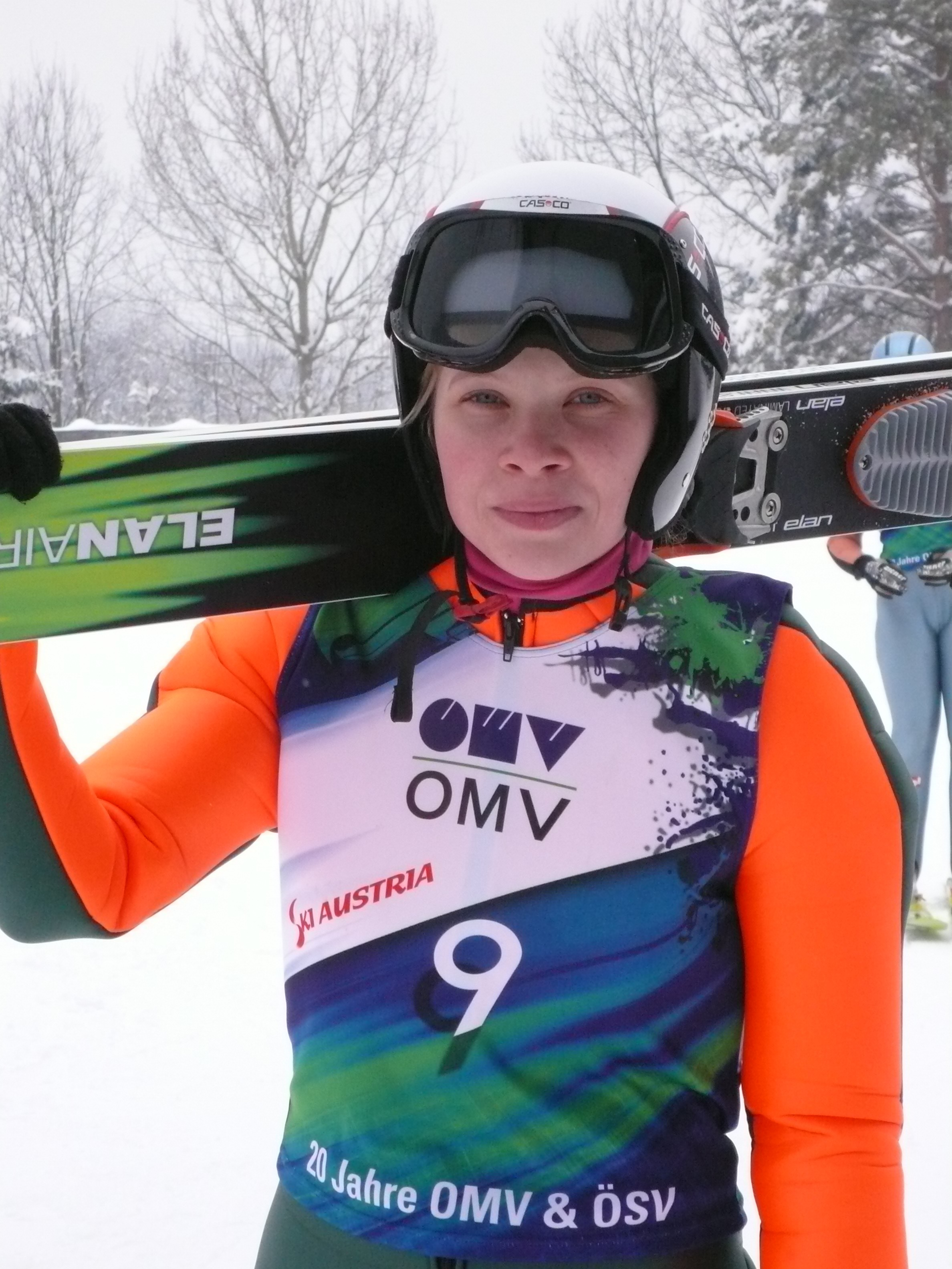 Anastasiya Gladysheva, at the Ski jumping Continental Cup in Villach on the 2010-02-12.